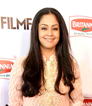 Jyothika at 62nd Britannia Filmfare South Awards 2014